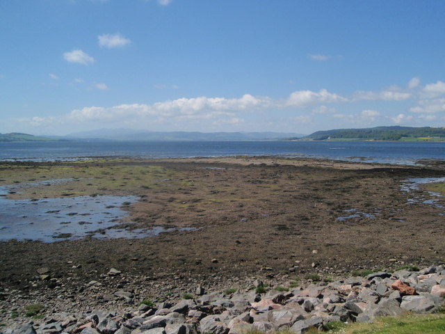 South Kessock spit. Looking out to the sandy/shingle spit jutting out into the Beauly Firth before venturing out across it!